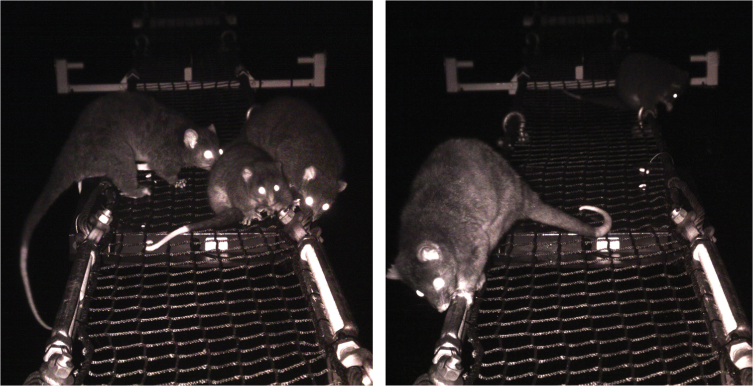 Photographs of mother and young Western ringtail possum (Pesudocheirus occidentalis) crossing the road using a rope bridge near Busselton, Western Australia. The left photograph is of a mother and her young with another adult possum.